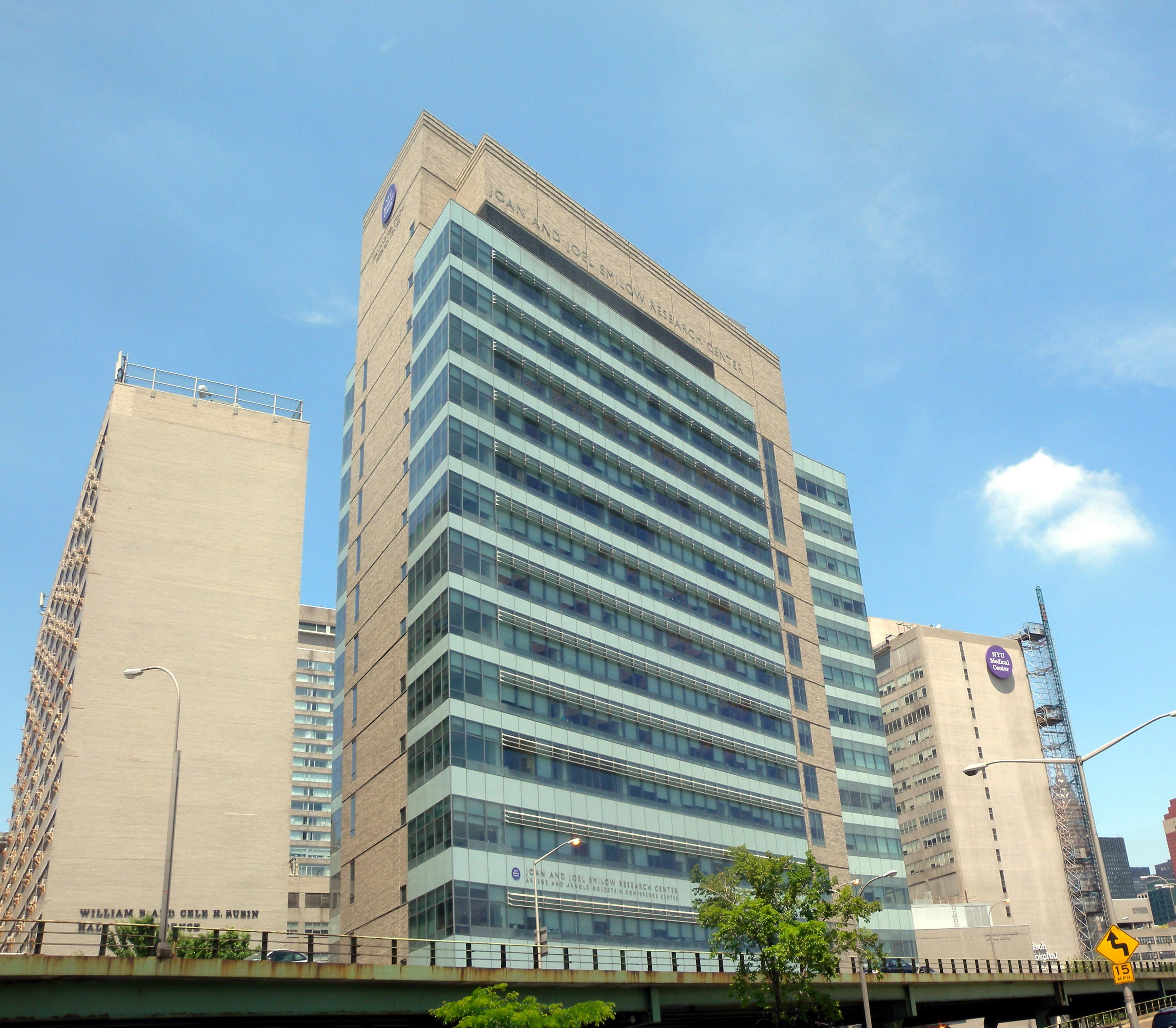 Looking northwest across FDR Drive at Smilow Research Building, part of NYU Hospital Center, on a sunny midday.